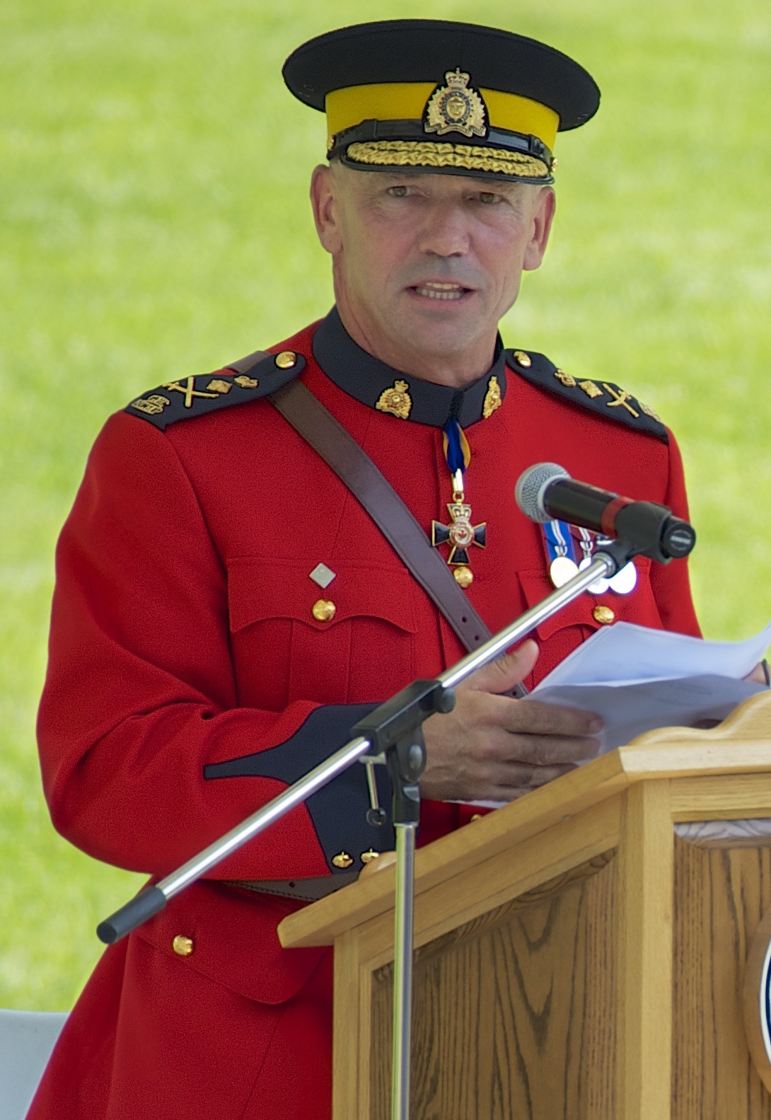 Bob Paulson, the Commissioner of the Royal Canadian Mounted Police (RCMP), declares the Glengarry Highland Games 'open' in Maxville Ontario. The 2012 games were dedicated to Police Pipe and Drum Bands. The Commissioner noted with pride that since 1998 the number of RCMP affiliated Pipe bands has grown from one to seven across Canada.